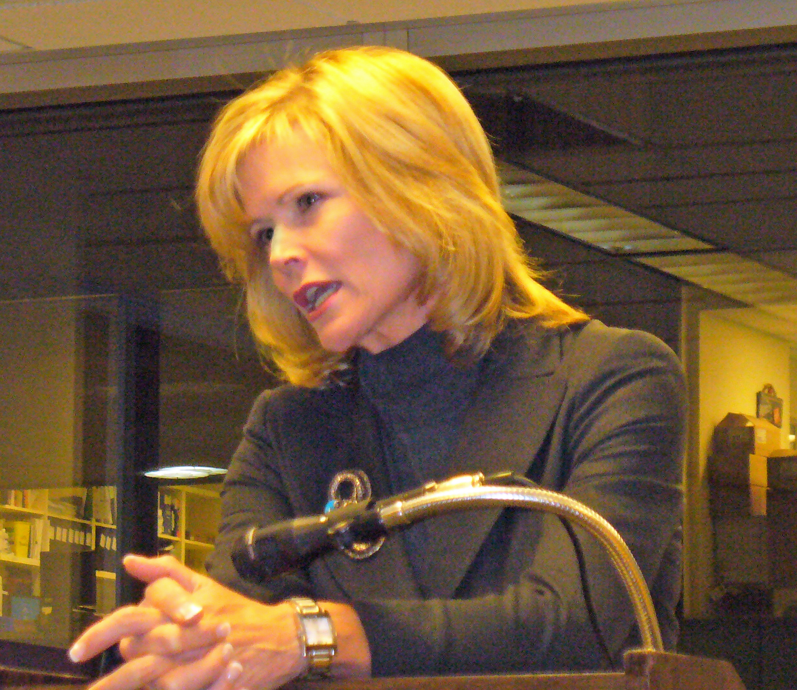 Catherine Crier 2 by David Shankbone